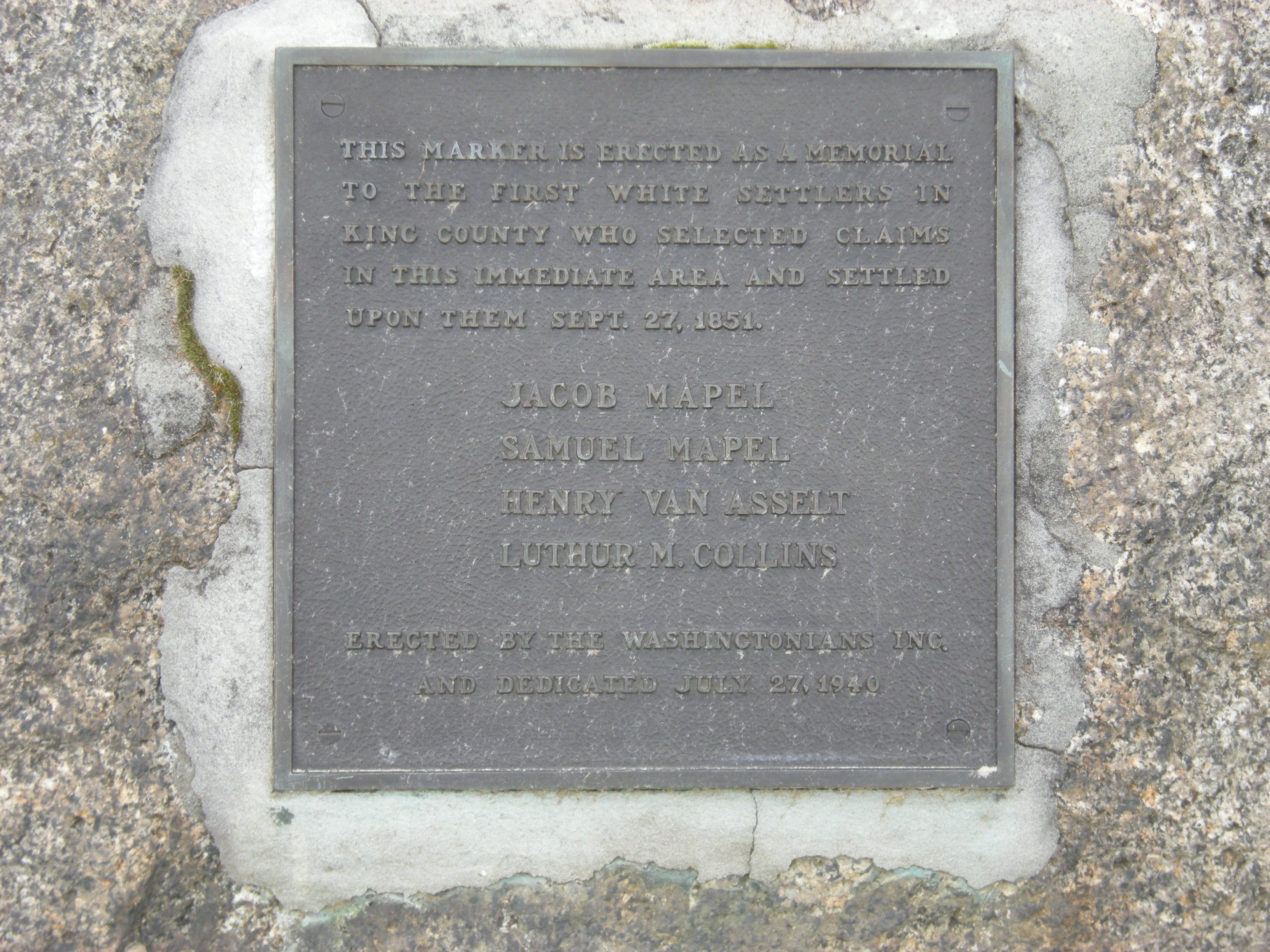 Plaque at Boeing Field memorializing Jacob and Samuel Mapel (or Maple), Henry Van Asselt, and Luther M. Collins, first white settlers in the area where the airport is now located.